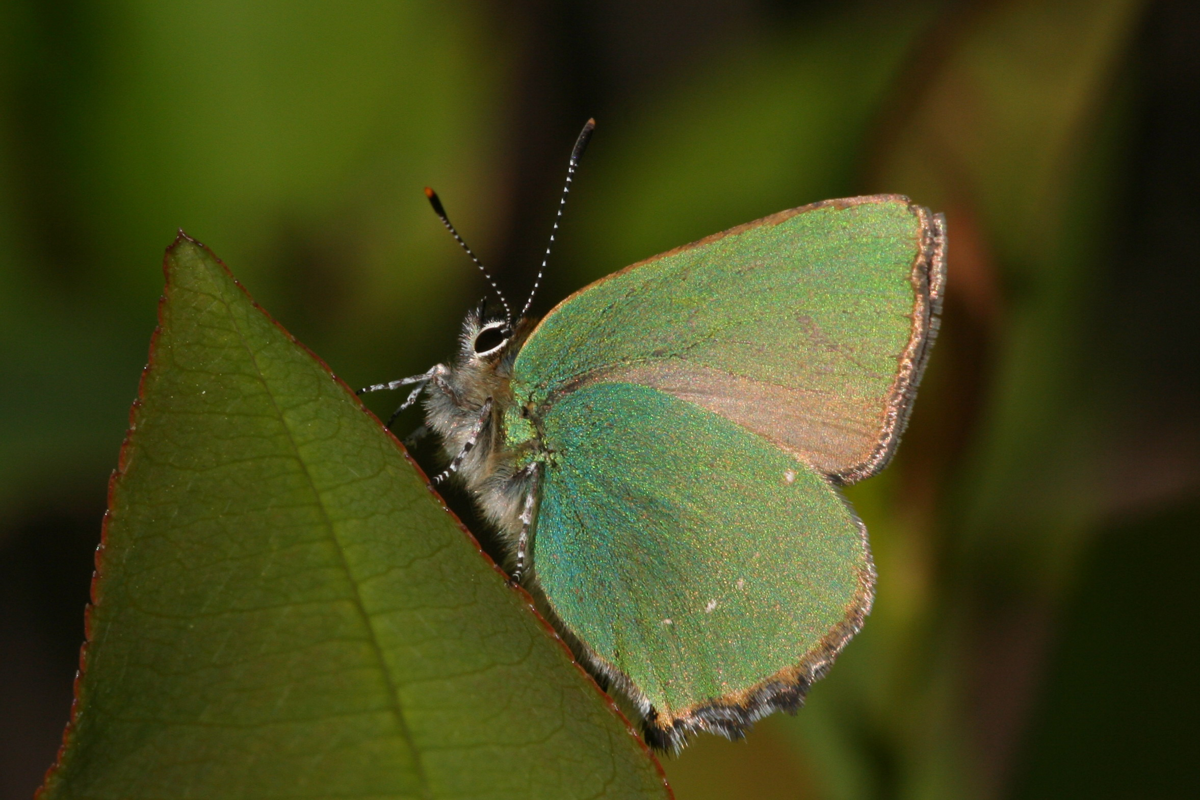 Callophrys rubi 23 april 2007 Bussummerheide, Hilversum